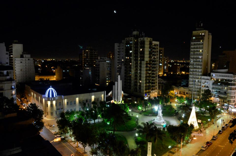 Plaza Adolfo Alsina, Centro de Avellaneda, Buenos Aires, Argentina.